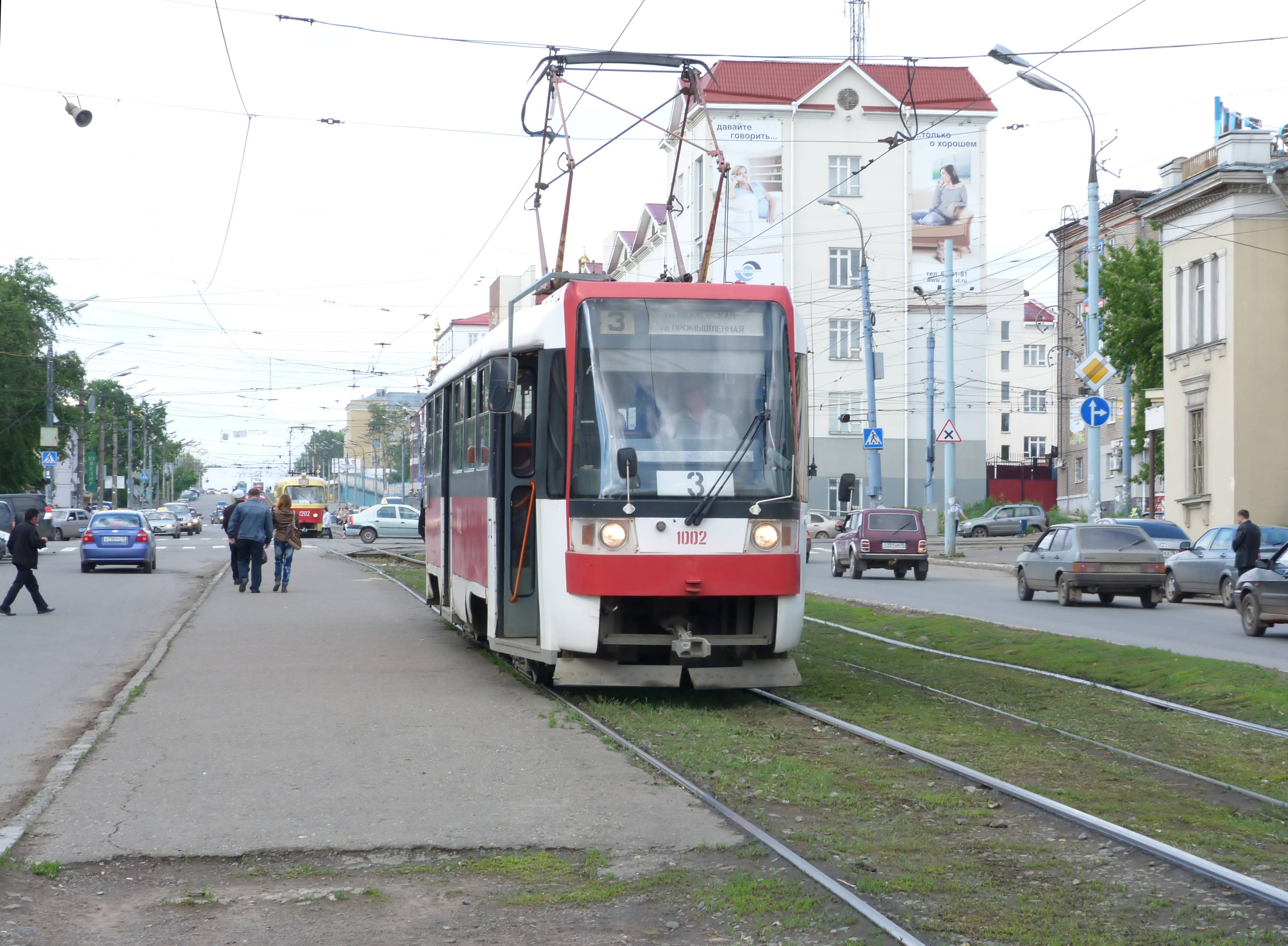 Tram 1002 on "Lenina Street" in Izhevsk